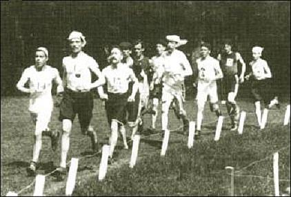 Michel Théato (1878-1919), second last in the line